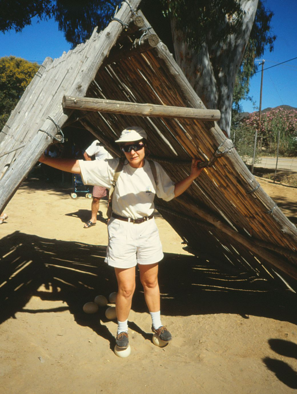 Visitors at a ostrich farm, get to try if the eggs can carry a person.